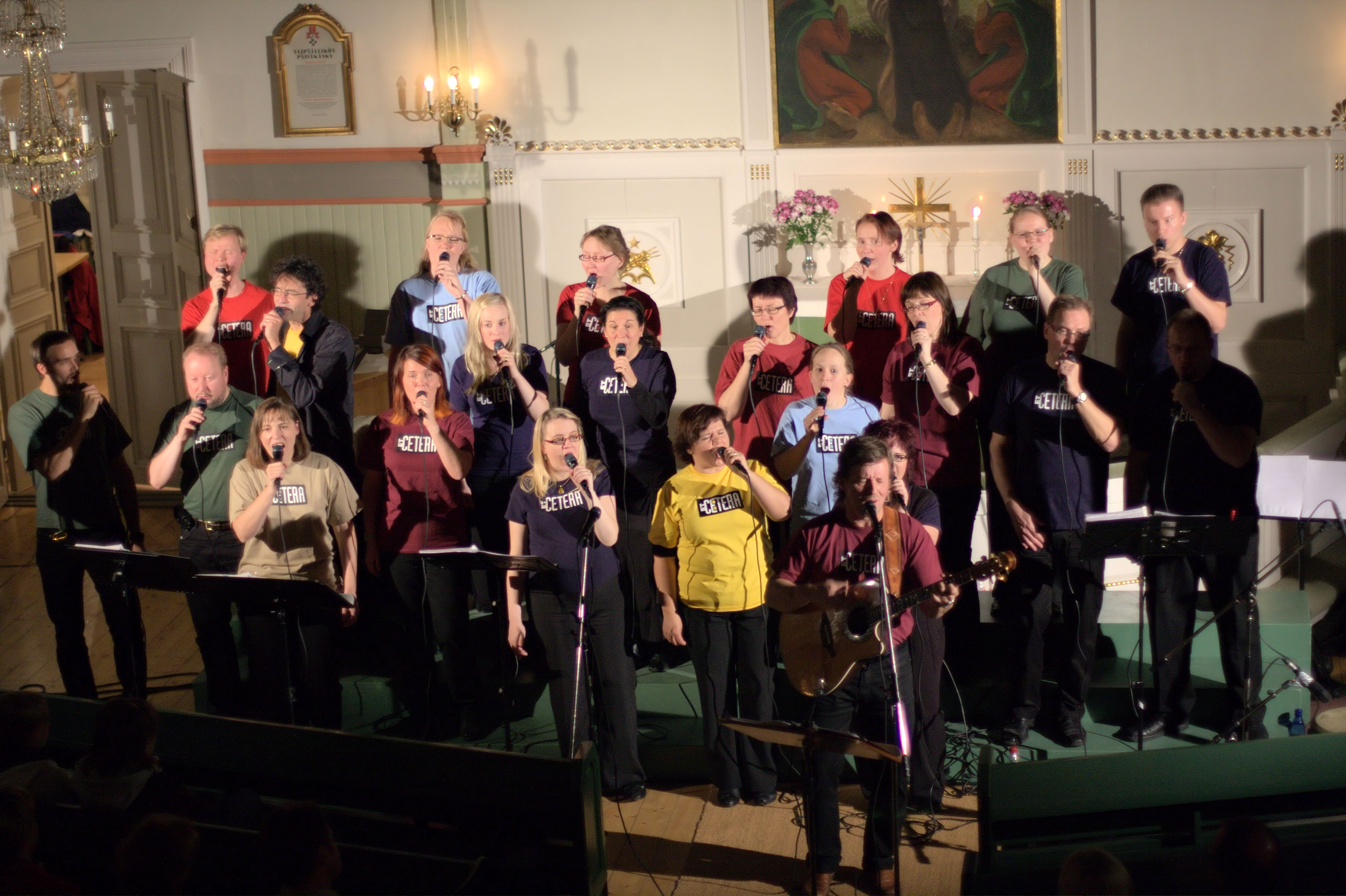 EtCetera finnish gospel-group